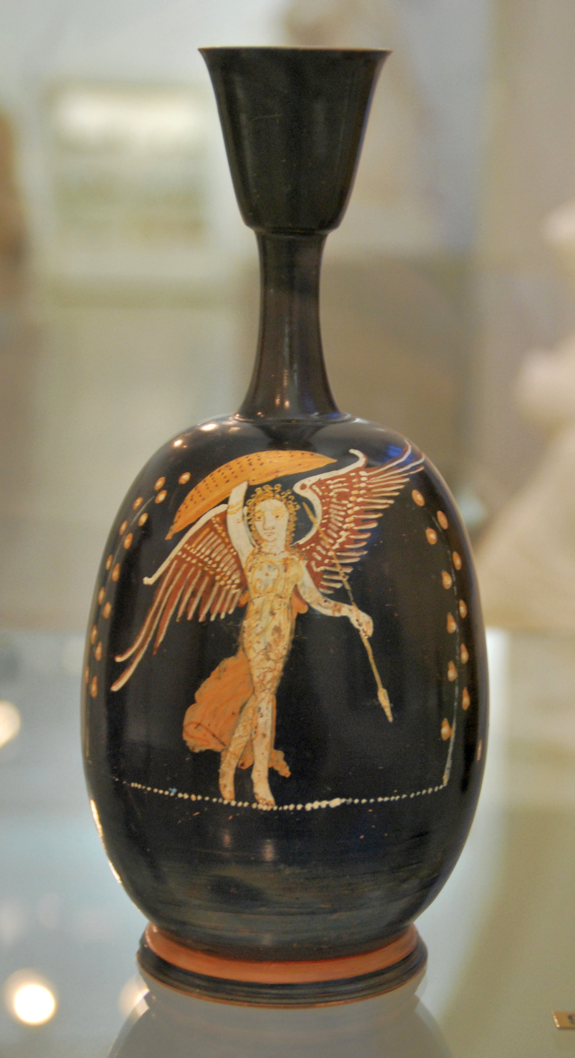 Armed dancing Nike on a lekythos in Gnathia style; Antikensammlung Kiel, inventory number B 707.